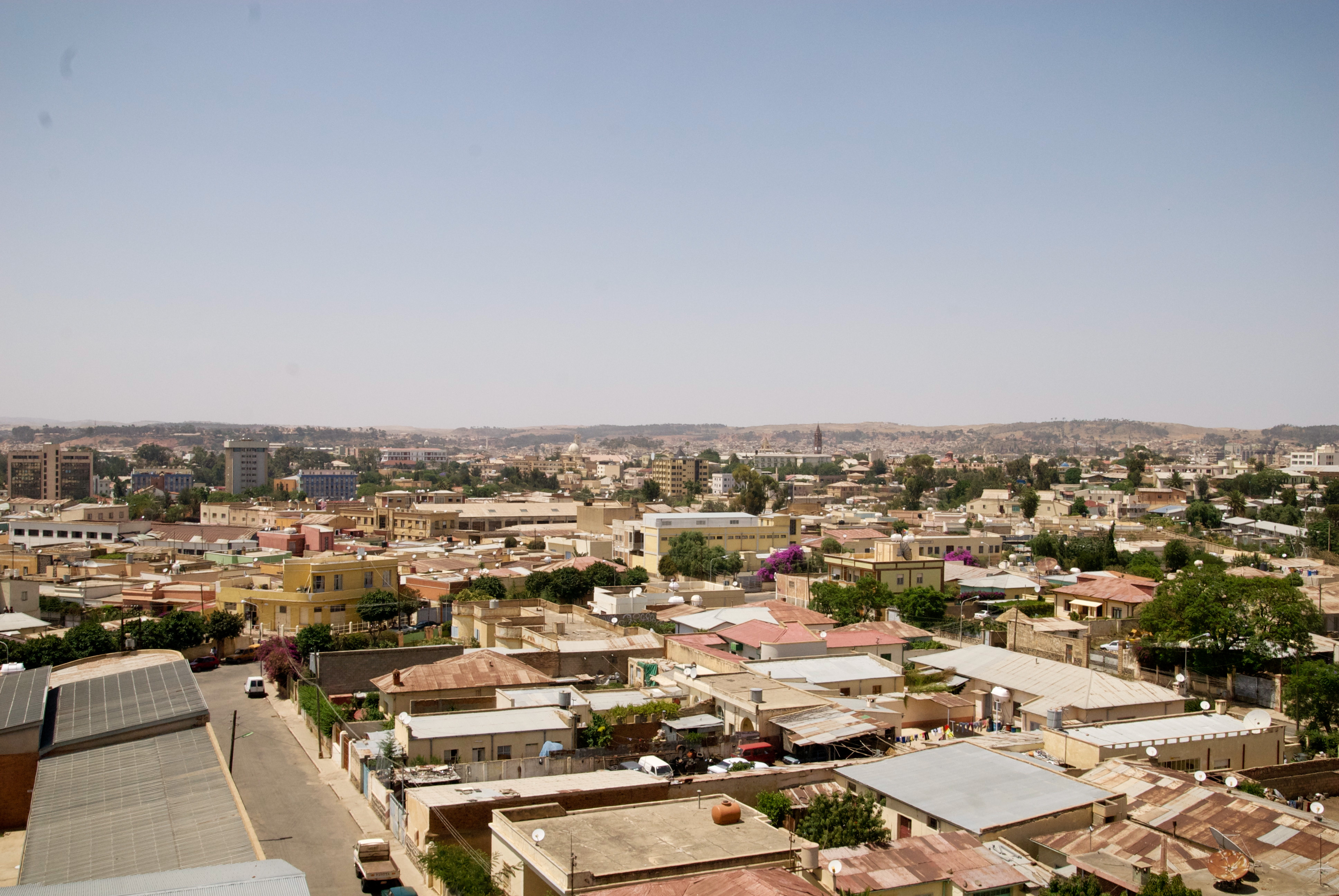 View of Asmara (2013)